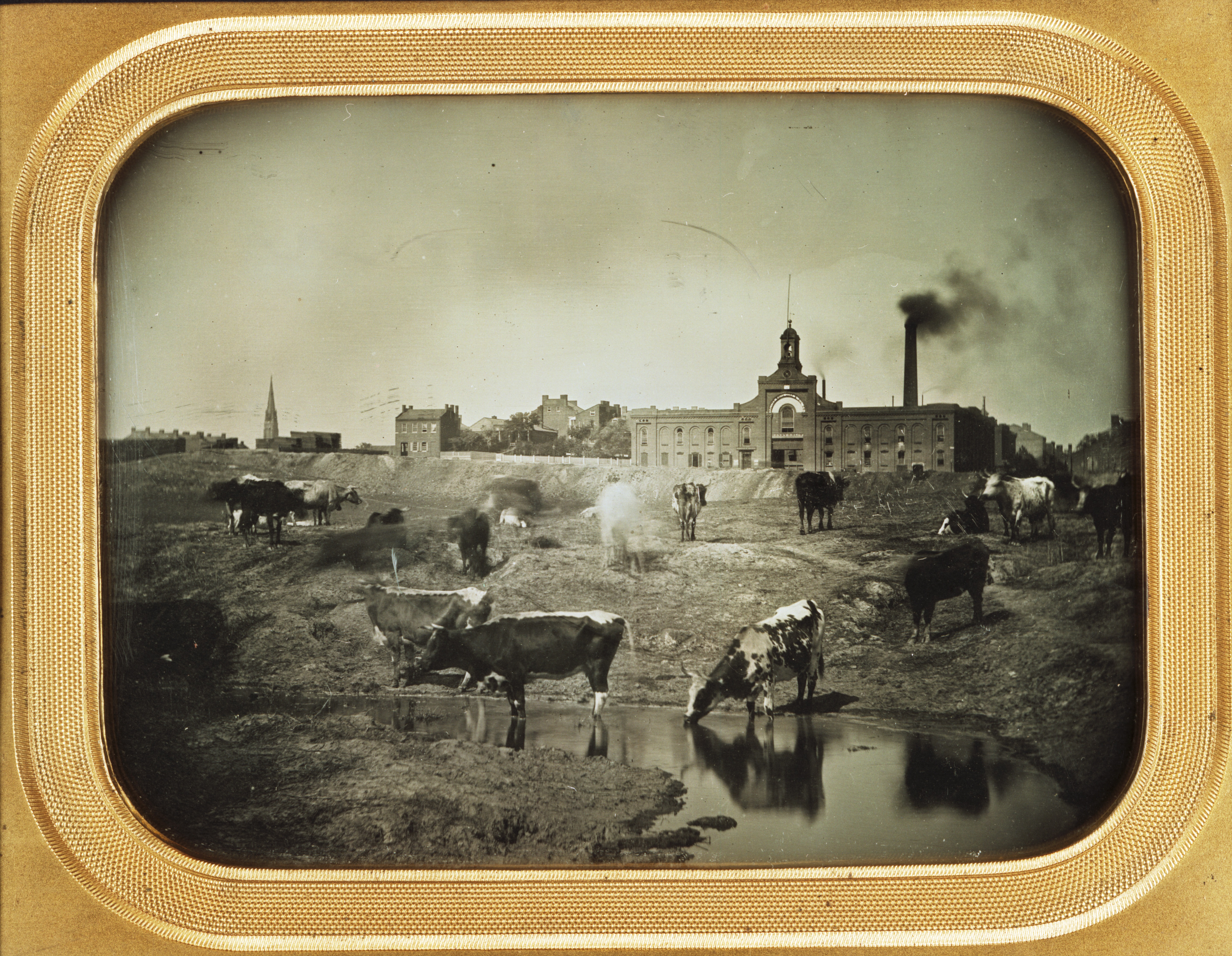 View of a drained area of Chouteau's Pond with cows. Collier's White Lead factory is in the background as well as a few other buildings. Title: Chouteau's Pond. View of drained area with cows. Collier's White Lead factory in background.